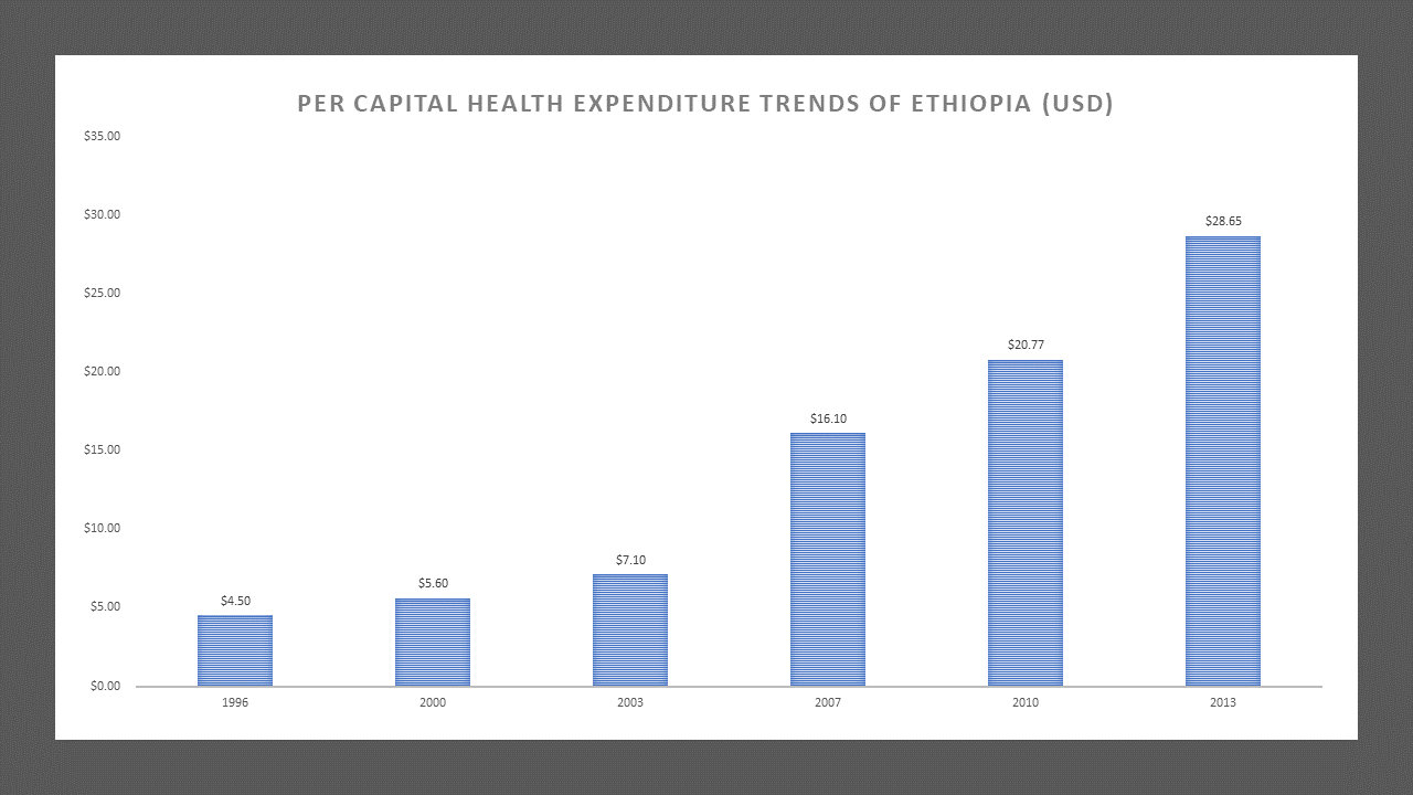 per capital health expendicure trends of Ethiopia(USD)